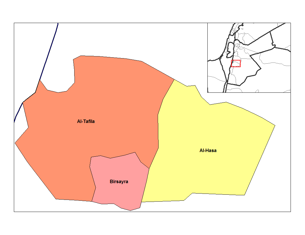 Map of the nahias of Tafilah governorate in Jordan. Created by Rarelibra 21:07, 27 December 2006 (UTC) for public domain use, using MapInfo Professional v8.5 and various mapping resources.